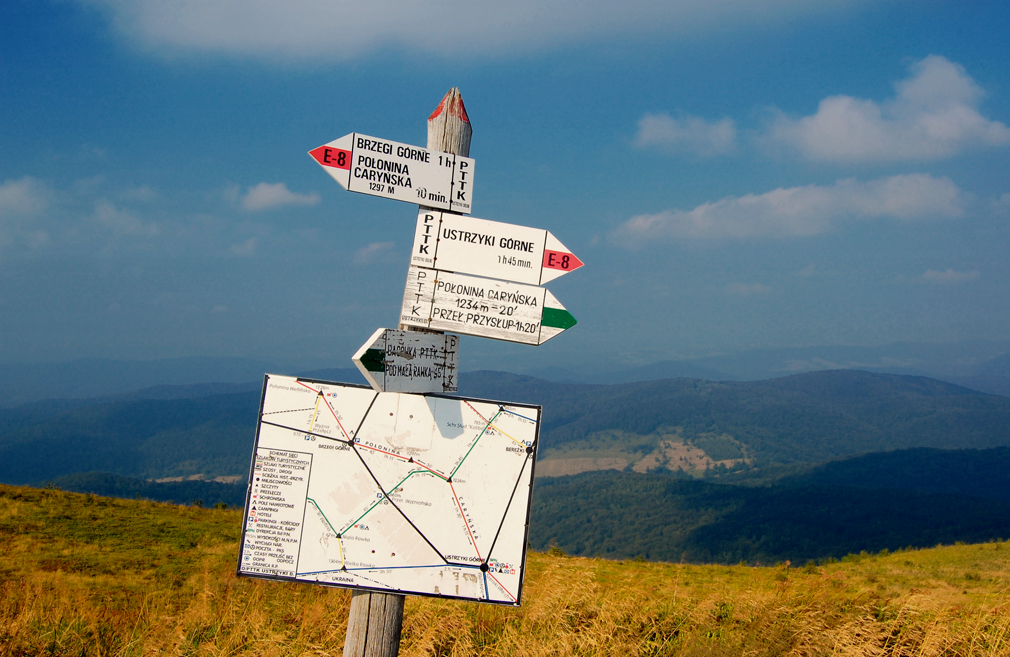 Polonina Carynska